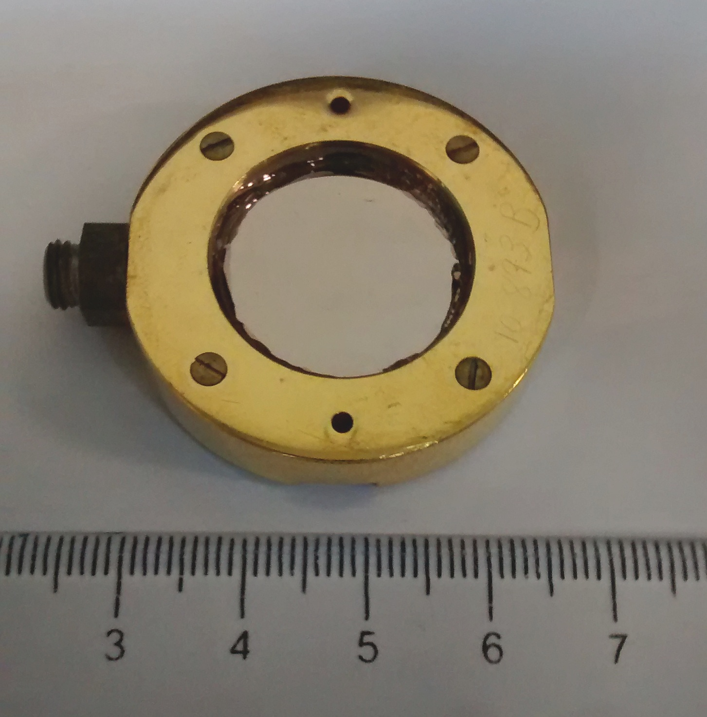 Semiconductor radiation detector surface-barrier type